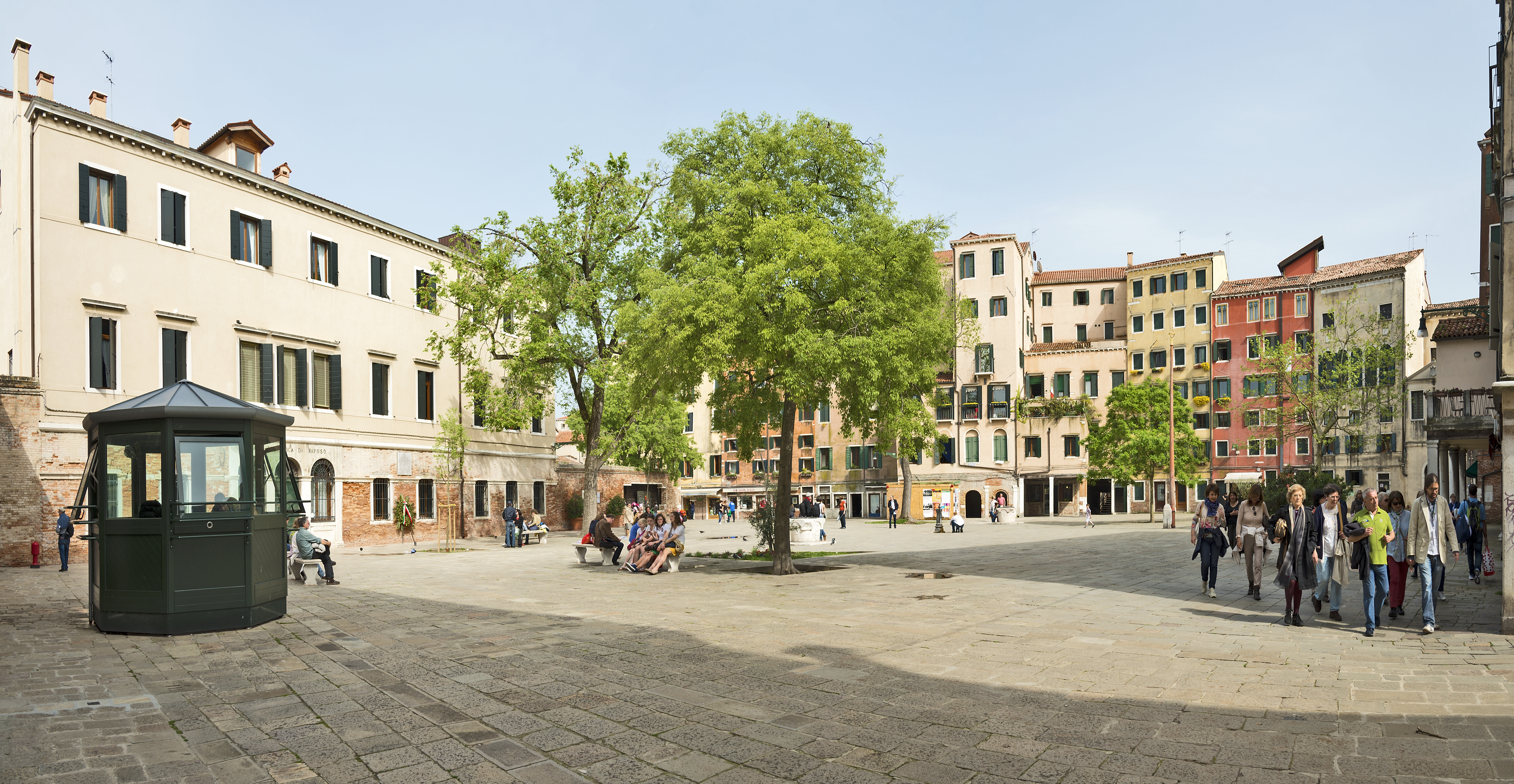 Maine place of Ghetto, Venice .